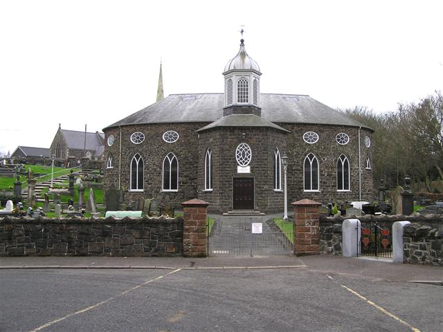 Randalstown Old Congregation Presbyterian Church This oval church was built in 1790 on the site of the former meeting-house on land had originally been granted to the congregation (founded 1655) by Rose, Marchioness of Antrim, only daughter of Sir Henry O'Neill of Shane's Castle. The new church, built of brownish basalt rubble stones, was completed at a cost of £600. It is possible that the oval design of the building is linked to that of St. Andrew's Church in Edinburgh which was built about six years earlier. In 1829 a gallery carried on cast-iron fluted columns was added and at the same time a hexagonal porch topped by a graceful bell-tower was erected, all at a cost of £1,054. The gallery, accessed by stairs from the porch had, at that time, very little headroom and was very dark, being lighted only by the tips of the pointed windows. In 1929 extensive alterations to the church were carried out at a total cost of £6,200. The walls and roof were raised and 18 oculus windows were inserted, giving more light and more headroom in the gallery. Matching stone for this was brought in by horse and cart from derelict cottages near the shores of Lough Neagh. So well was the building work done that it is only by looking very, very carefully that one can see the join between the old stonework of 1790 and that of 1929. The church has a website at